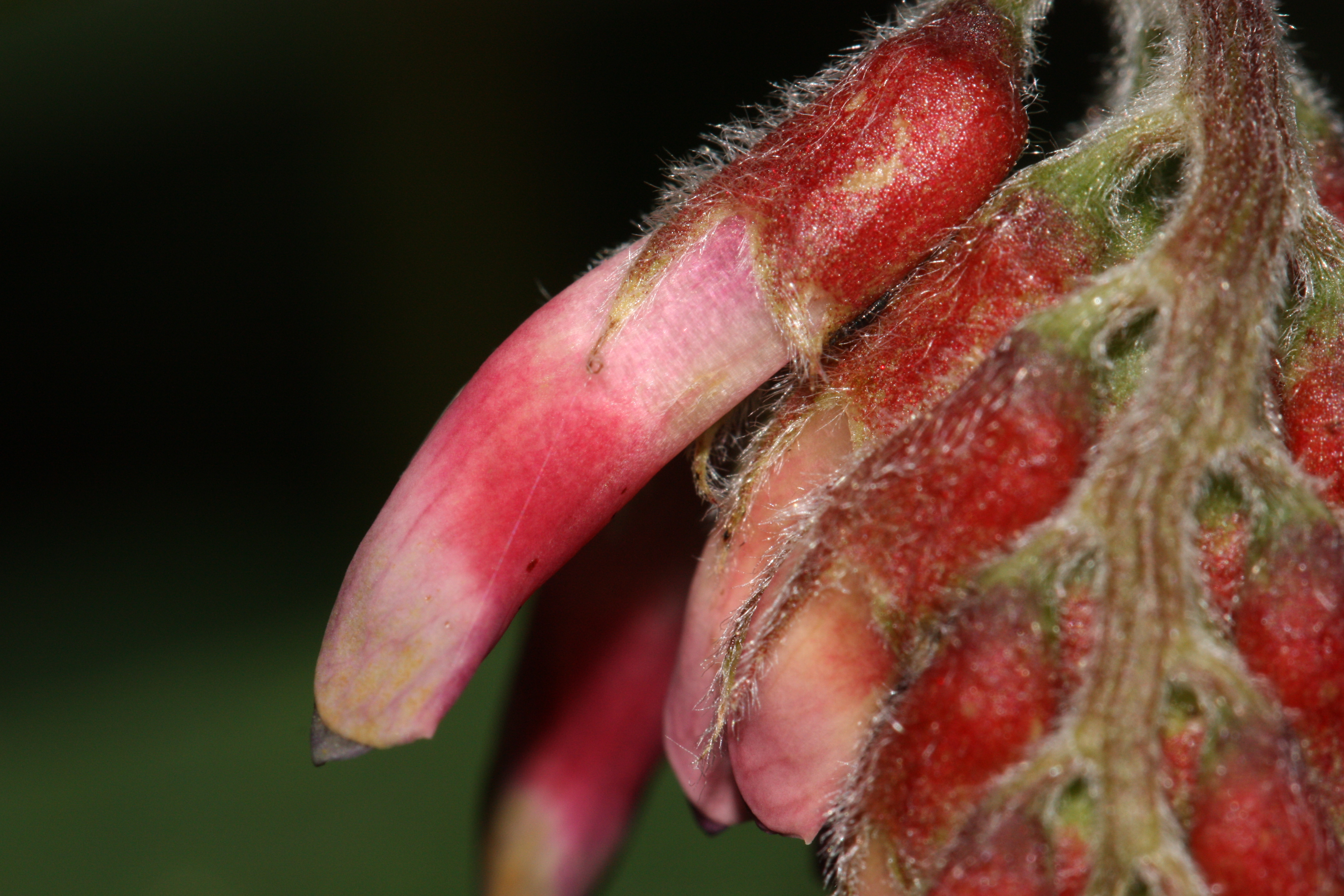 Giant Vetch